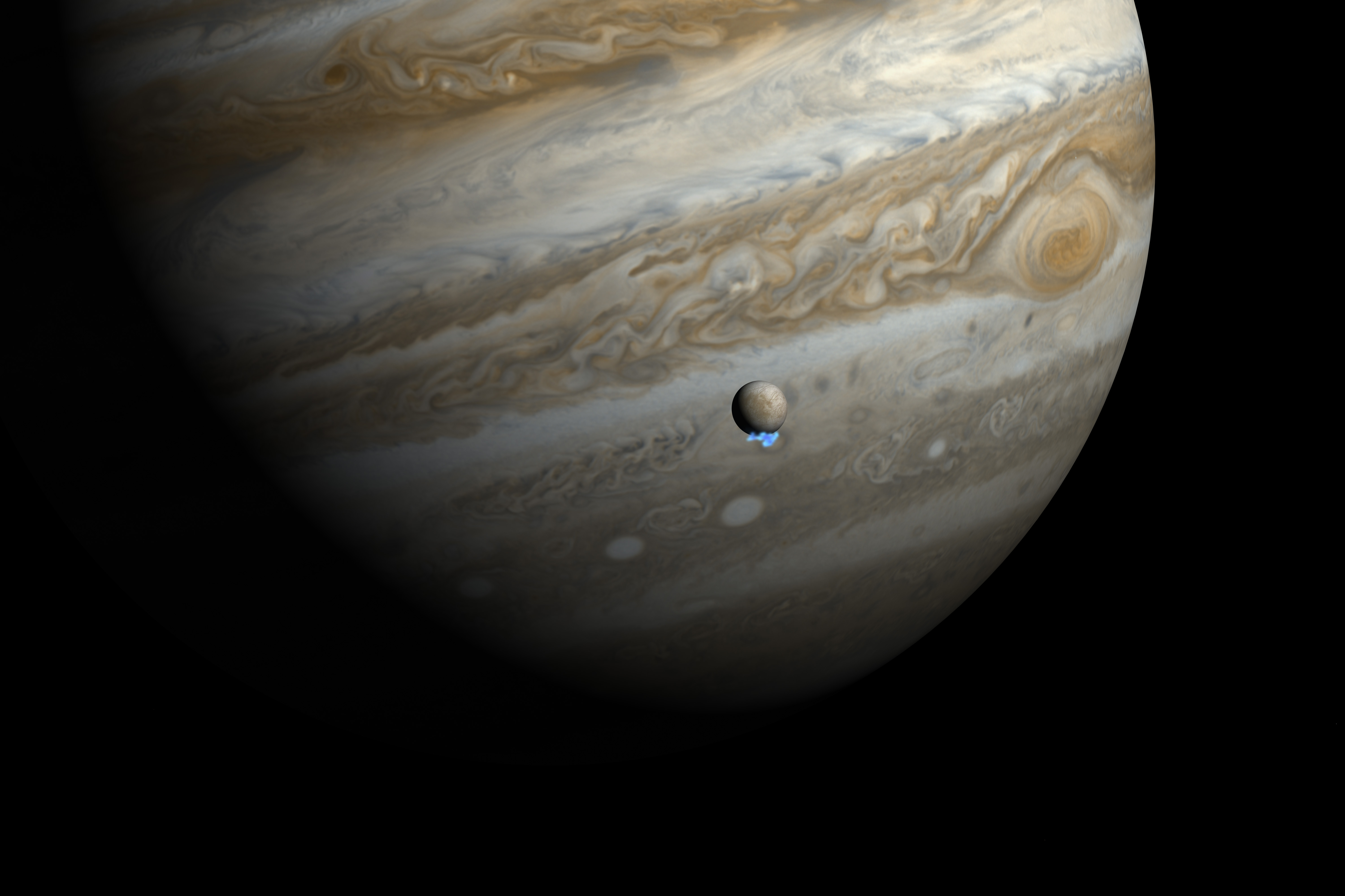 This artist's impression shows Jupiter and its moon Europa using actual Jupiter and Europa images in visible light. The Hubble ultraviolet images showing the faint emission from the water vapour plumes have been superimposed, respecting the size but not the brightness of the plumes. Astronomers using Hubble have detected signs of water vapour being vented off this moon, creating variable plumes near its south pole — the first observational evidence of water vapour being ejected off the moon's surface.